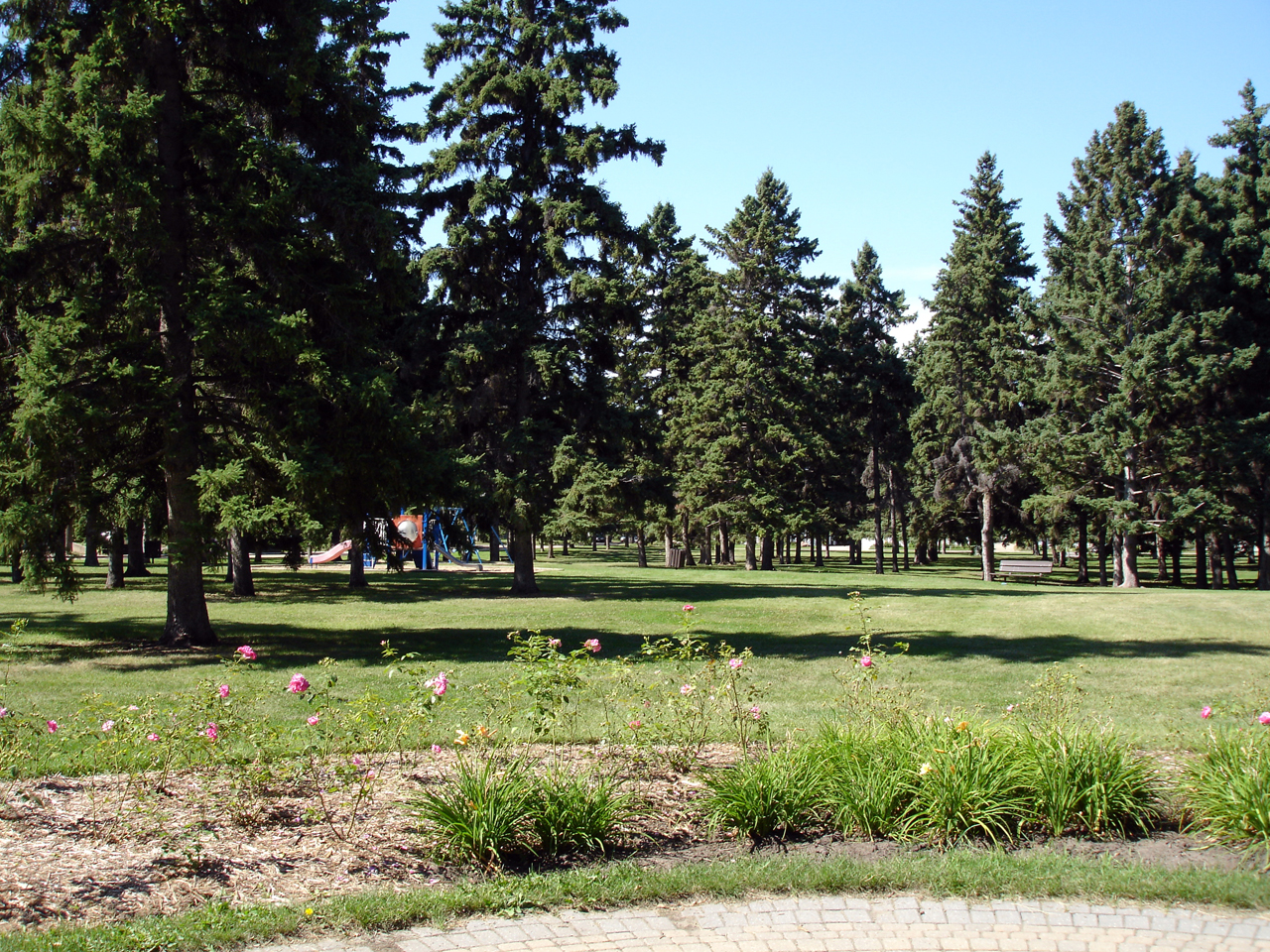 President Murray Park, a neighbourhood park in the subdivision of Varsity View in Saskatoon, Canada.